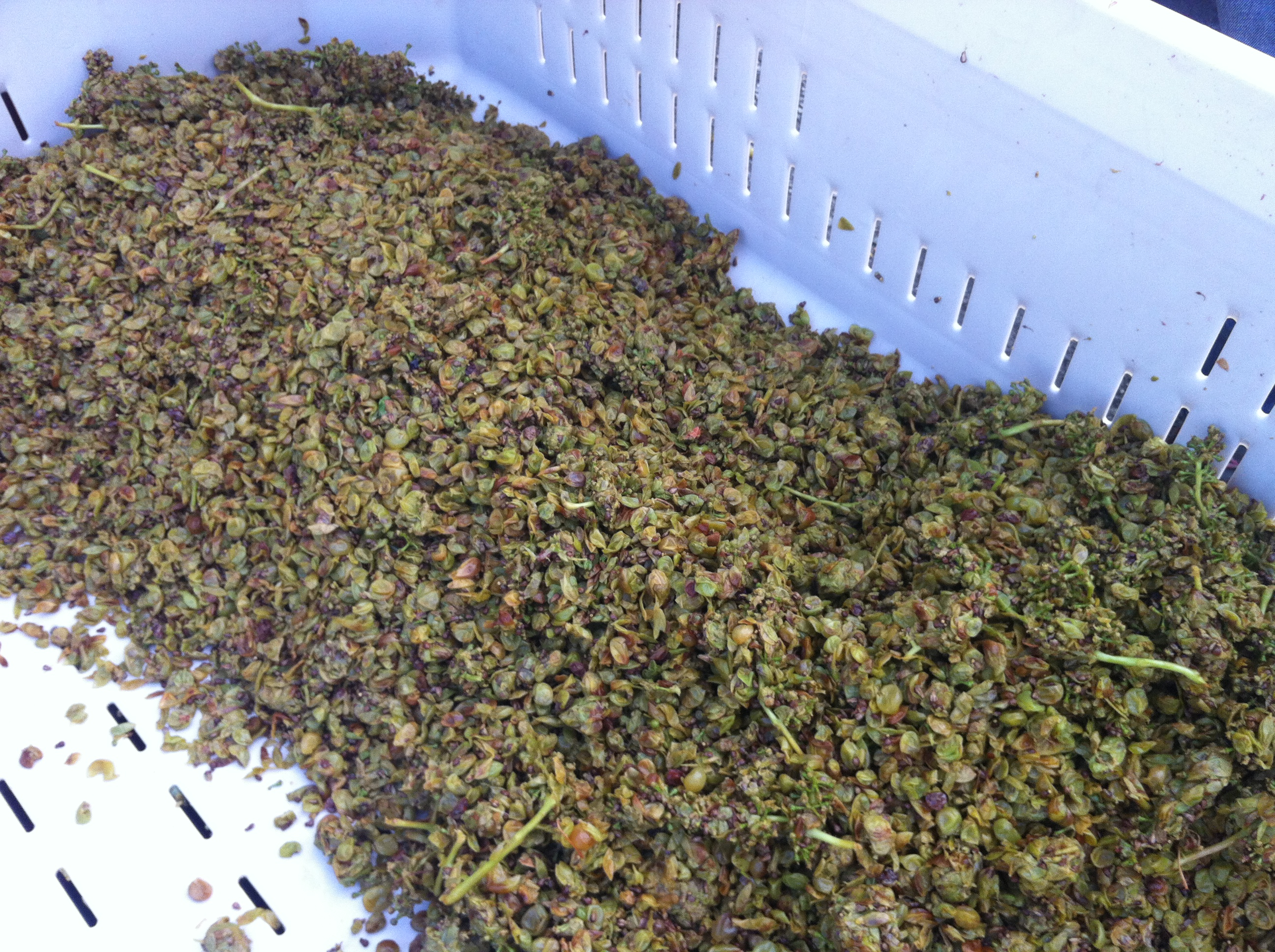 Pomace from viognier grapes left over after pressing